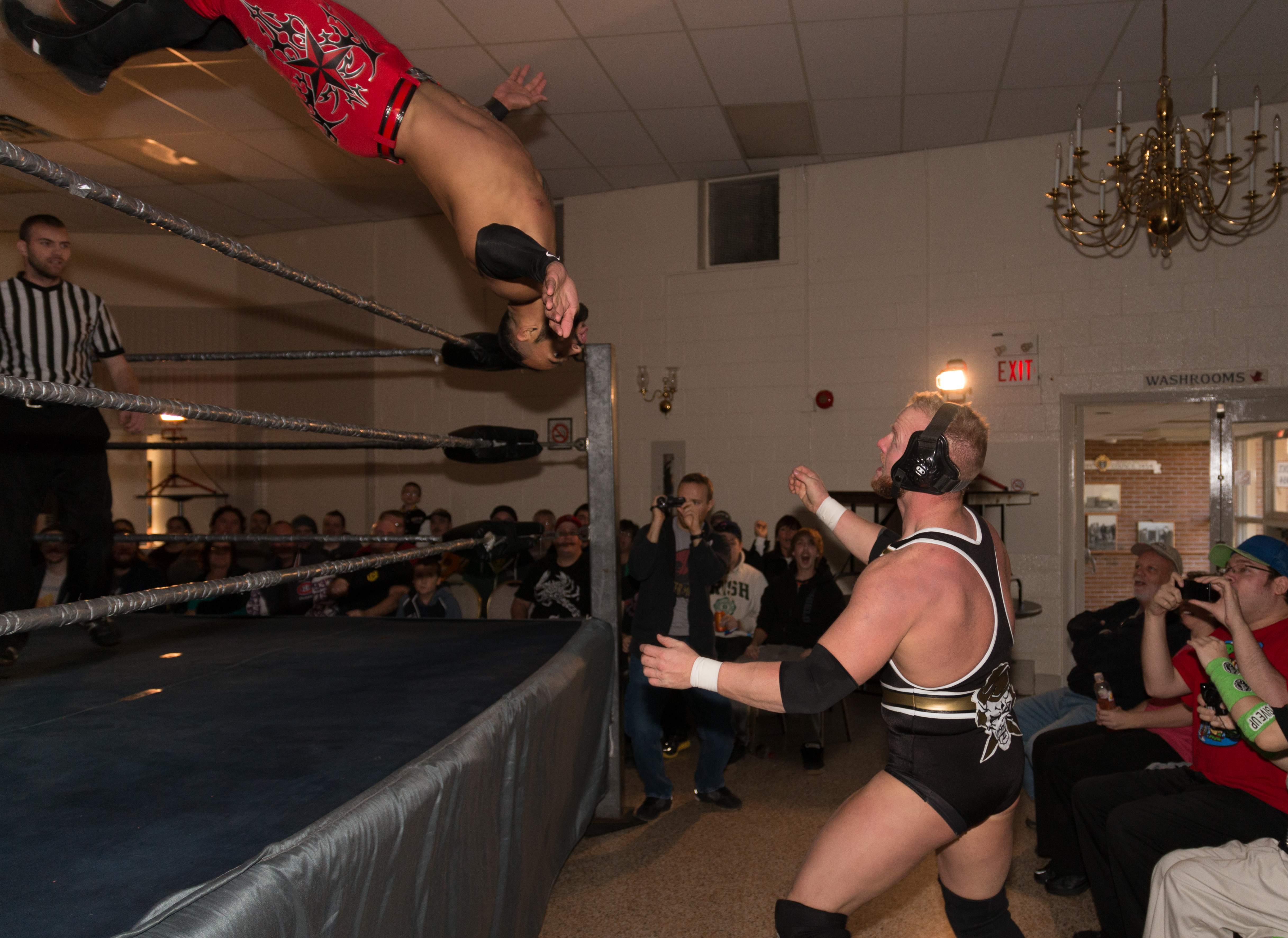 Independent wrestler Ricochet (left) executing an over the top rope corkscrew moonsault dive onto Josh Alexander at Alpha 1's Final Act 5 Season Finale show